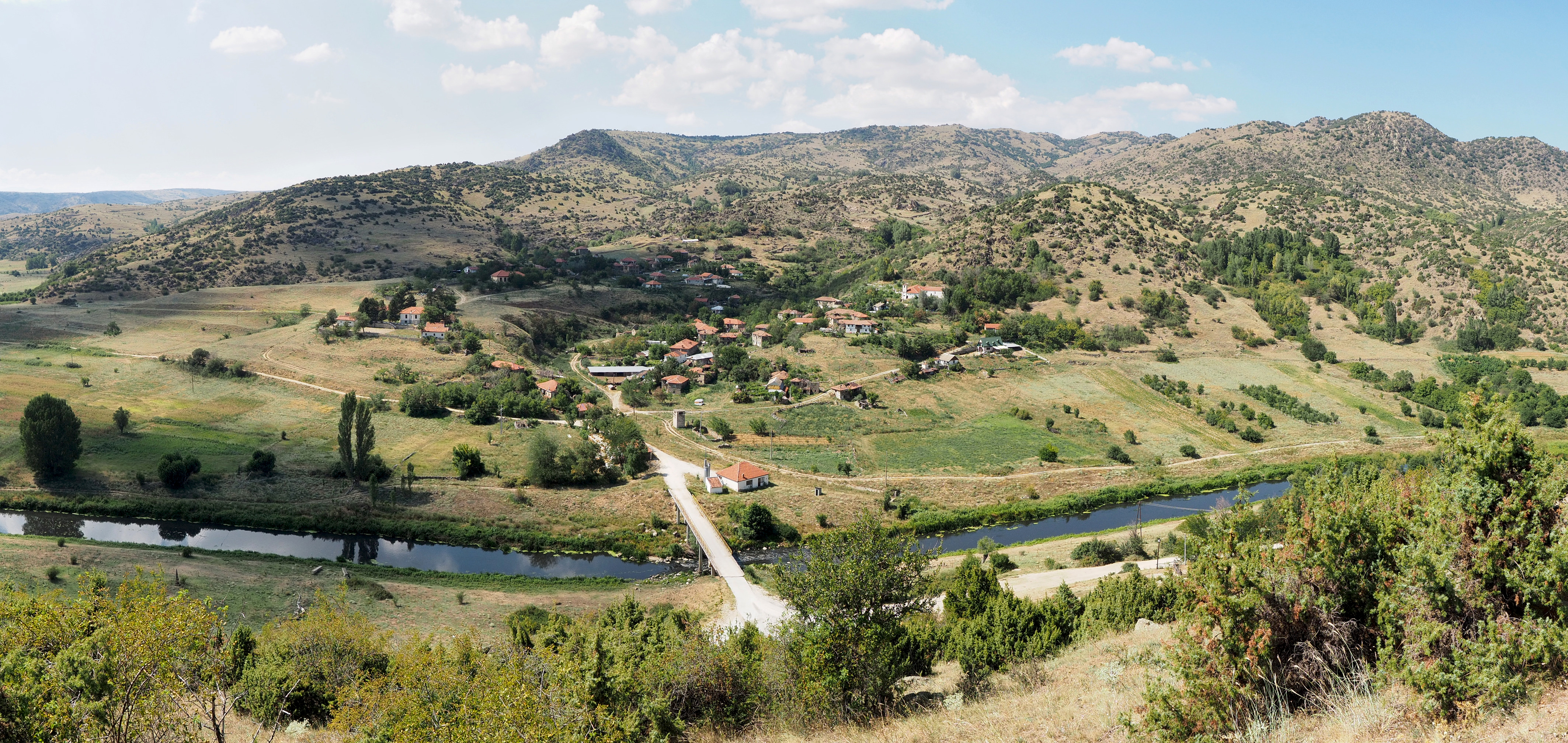 Skočivir, Republic of Macedonia. Српски (ћирилица): Скочивир, Македонија